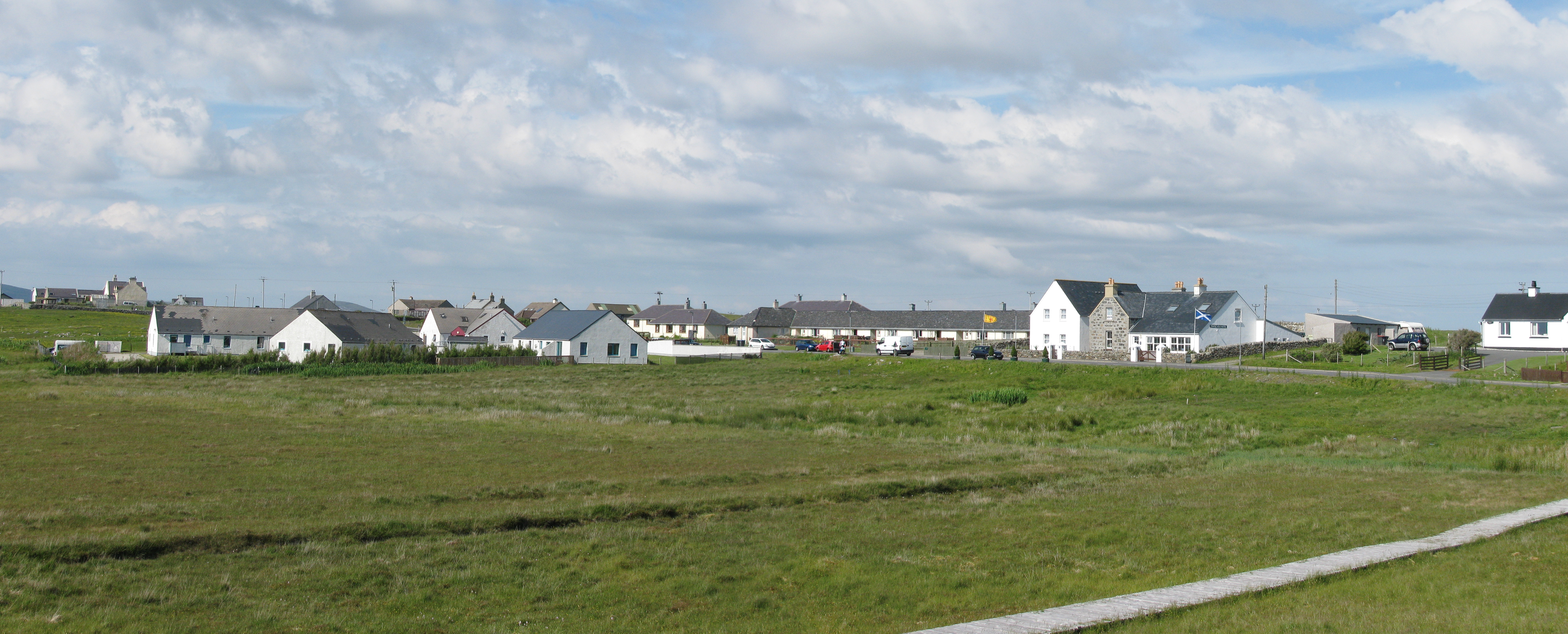 The village of Carinish (North Uist) with the battlefield of Carinish in the foreground.